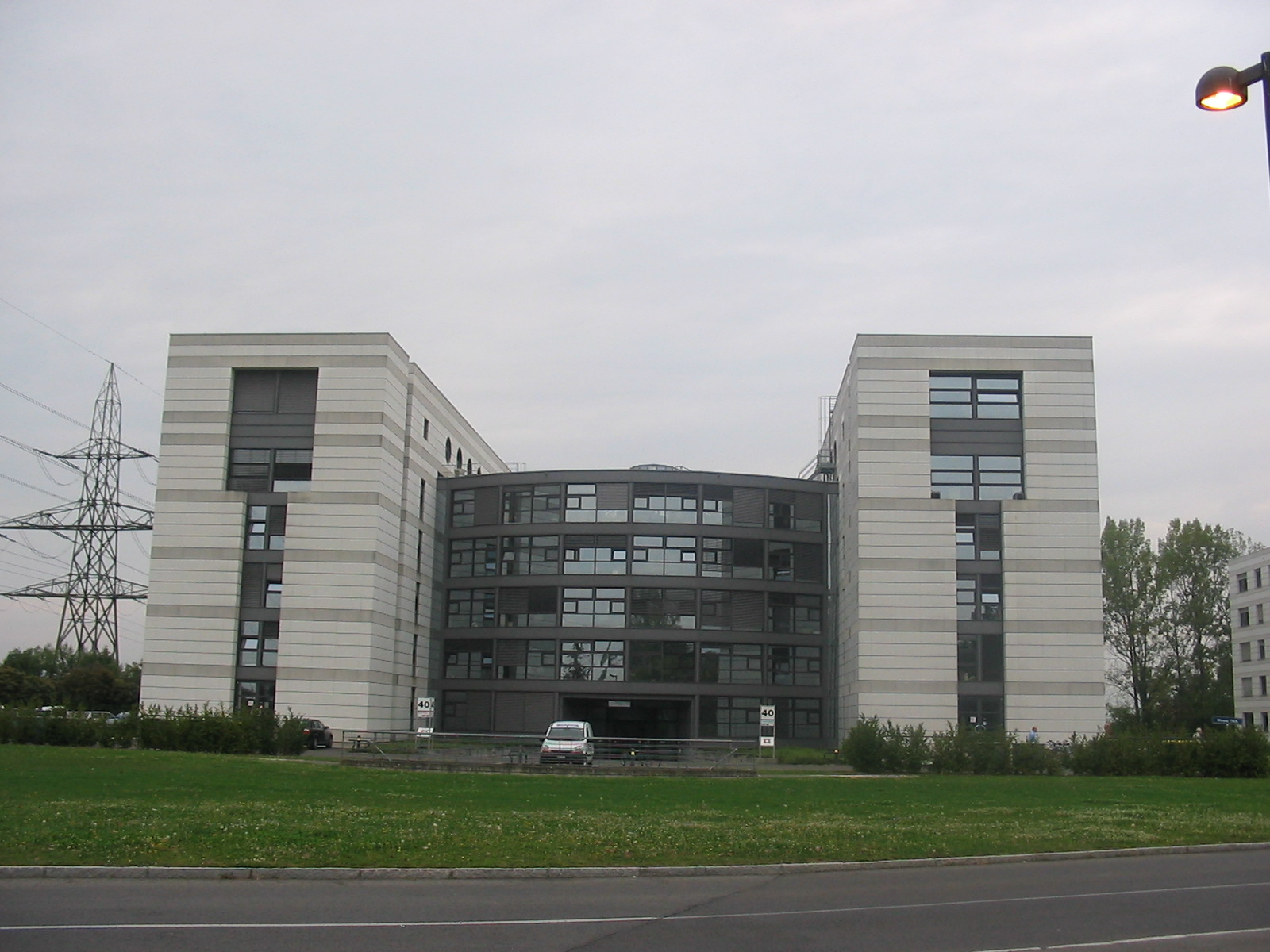 The building housing the main ATLAS and CMS offices at CERN.